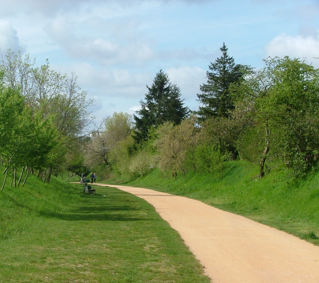 "Voie verte" from Sathonay-Camp to Caluire (France)